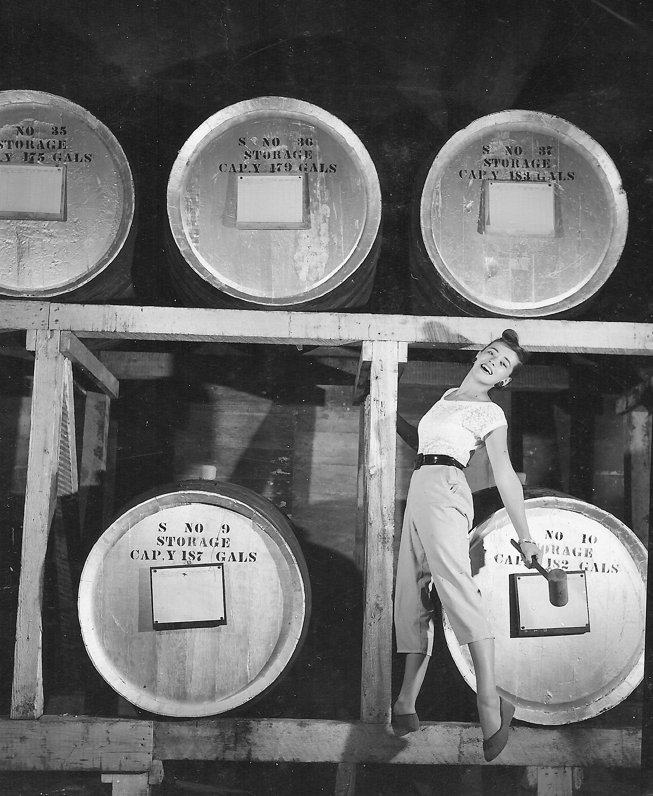 Vintage Queen, Diane Washburn, posing in the wine cellars.